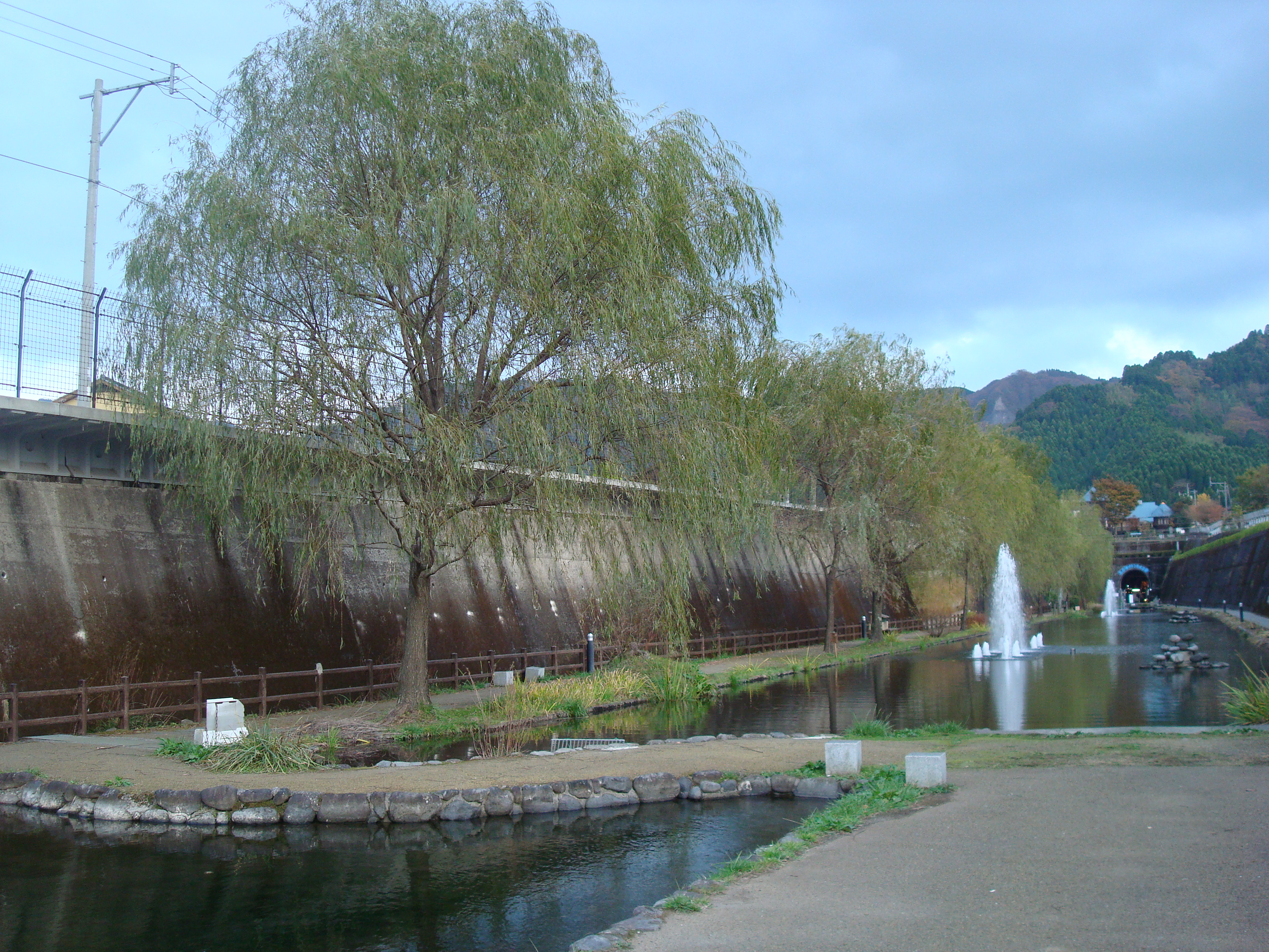 Takamori Spring Tunnel Park